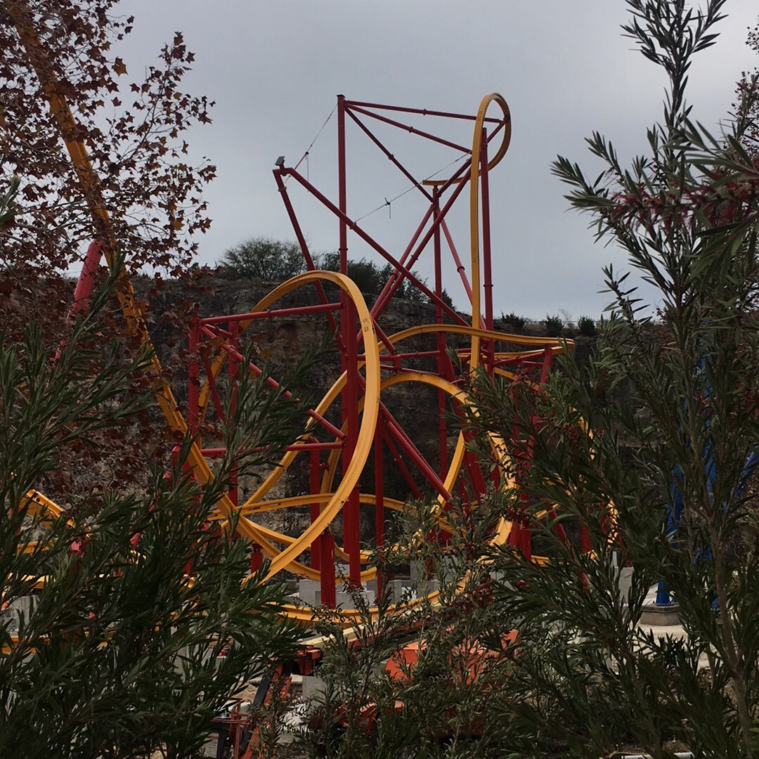 Wonder Woman Golden Lasso Coaster in December 2017